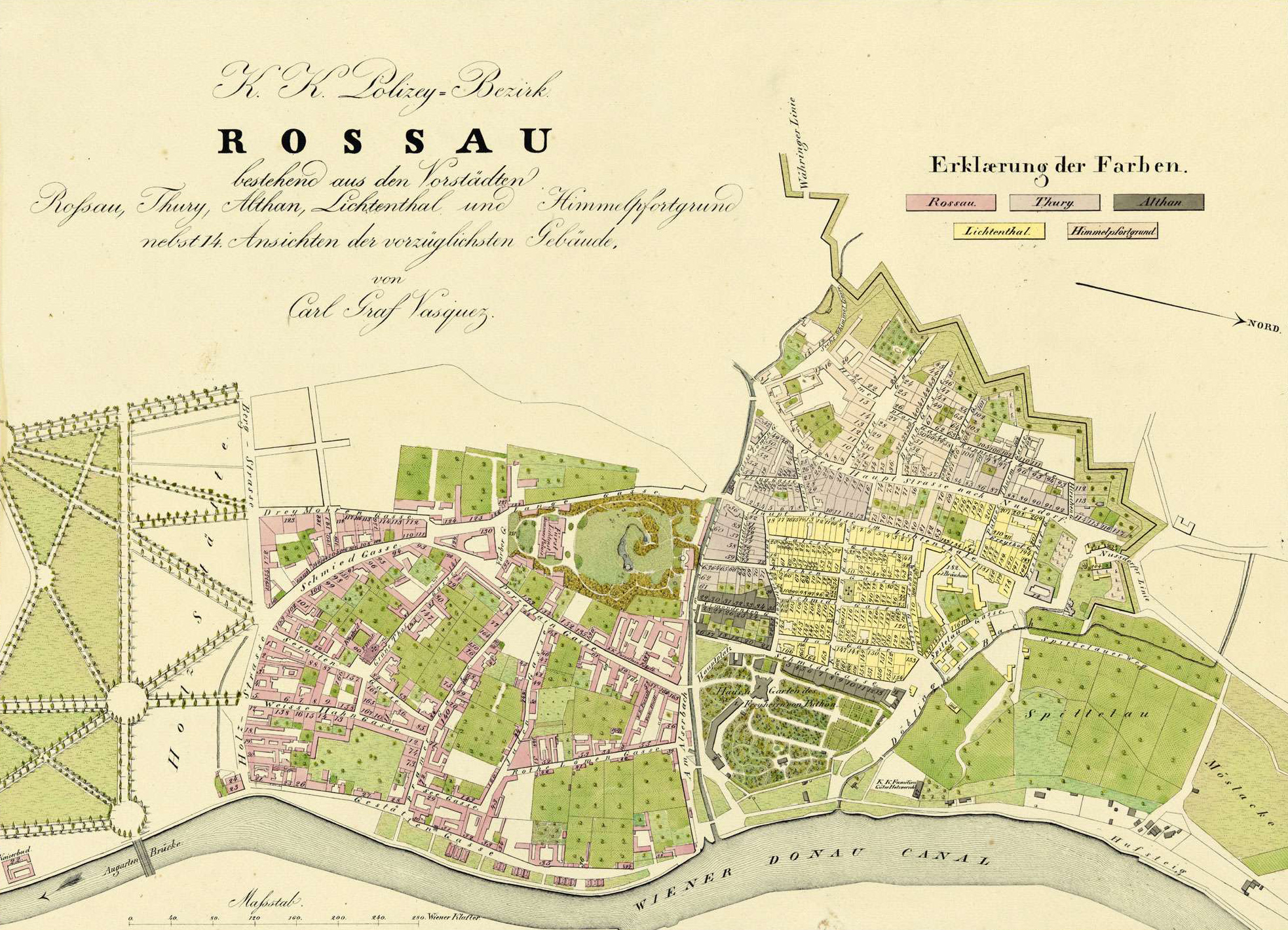 Map of Vienna / Rossau, approx. 1830